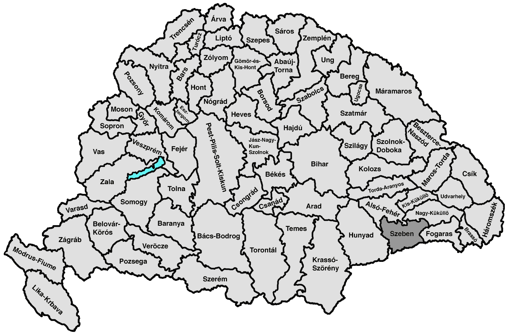 own edit of Image:Zala.png